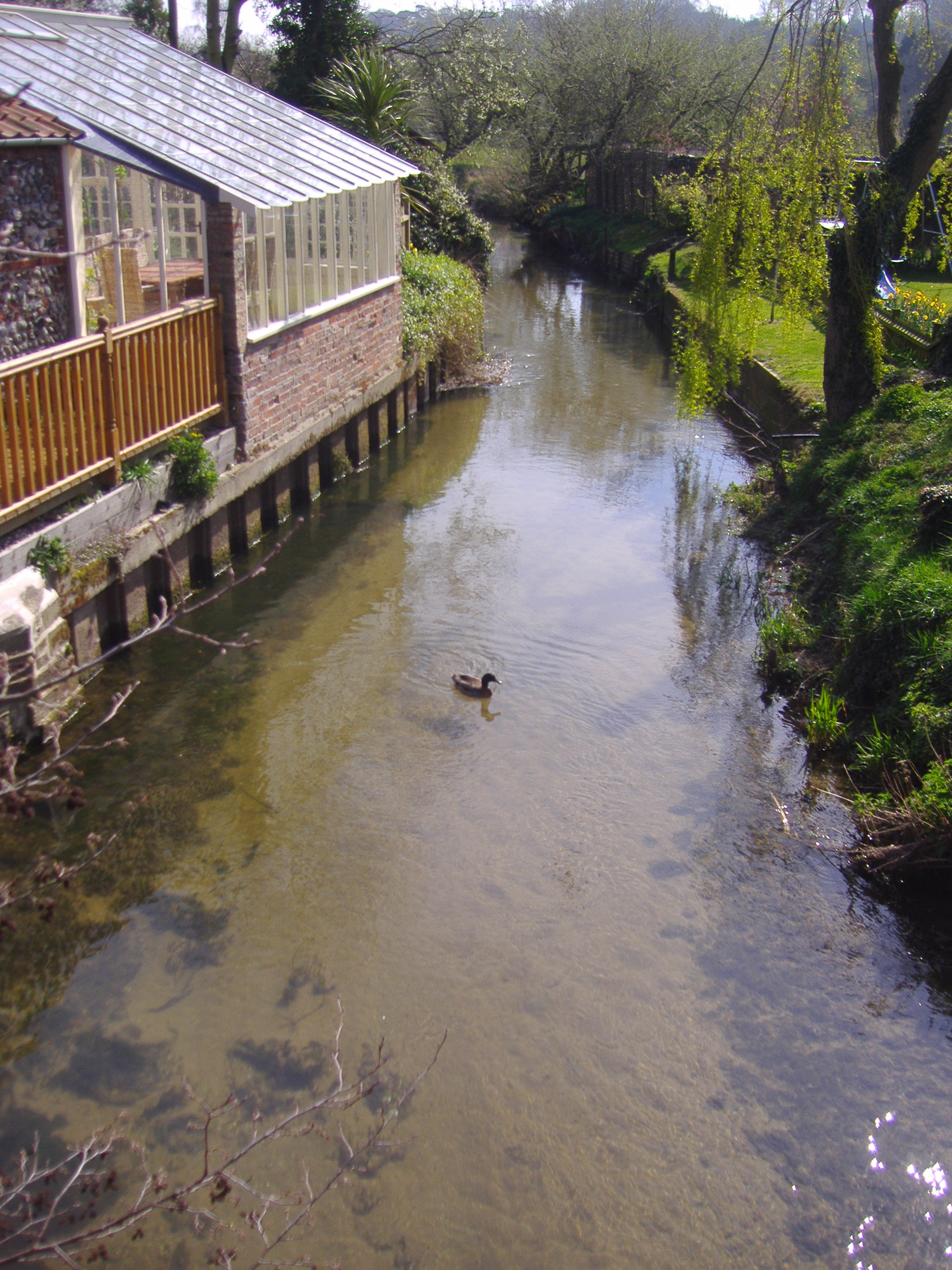 The River Stiffkey, A digital Photograph